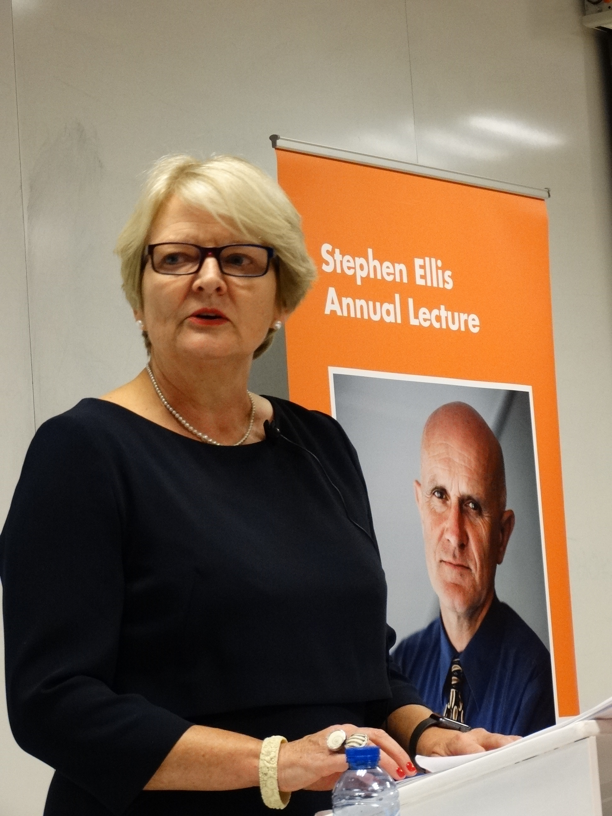 Henrietta Moore in 2018. Moore gave the Sthepen Ellis Annual Lecture in Leiden (6 Dec. 2018)